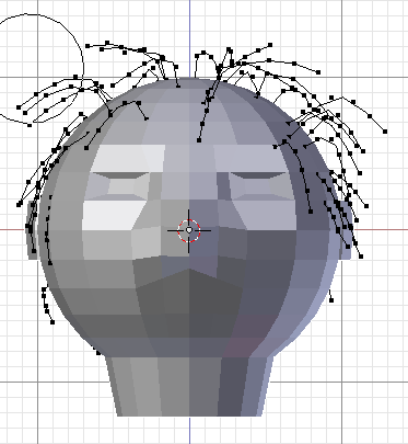 "Brushed" particle hair.